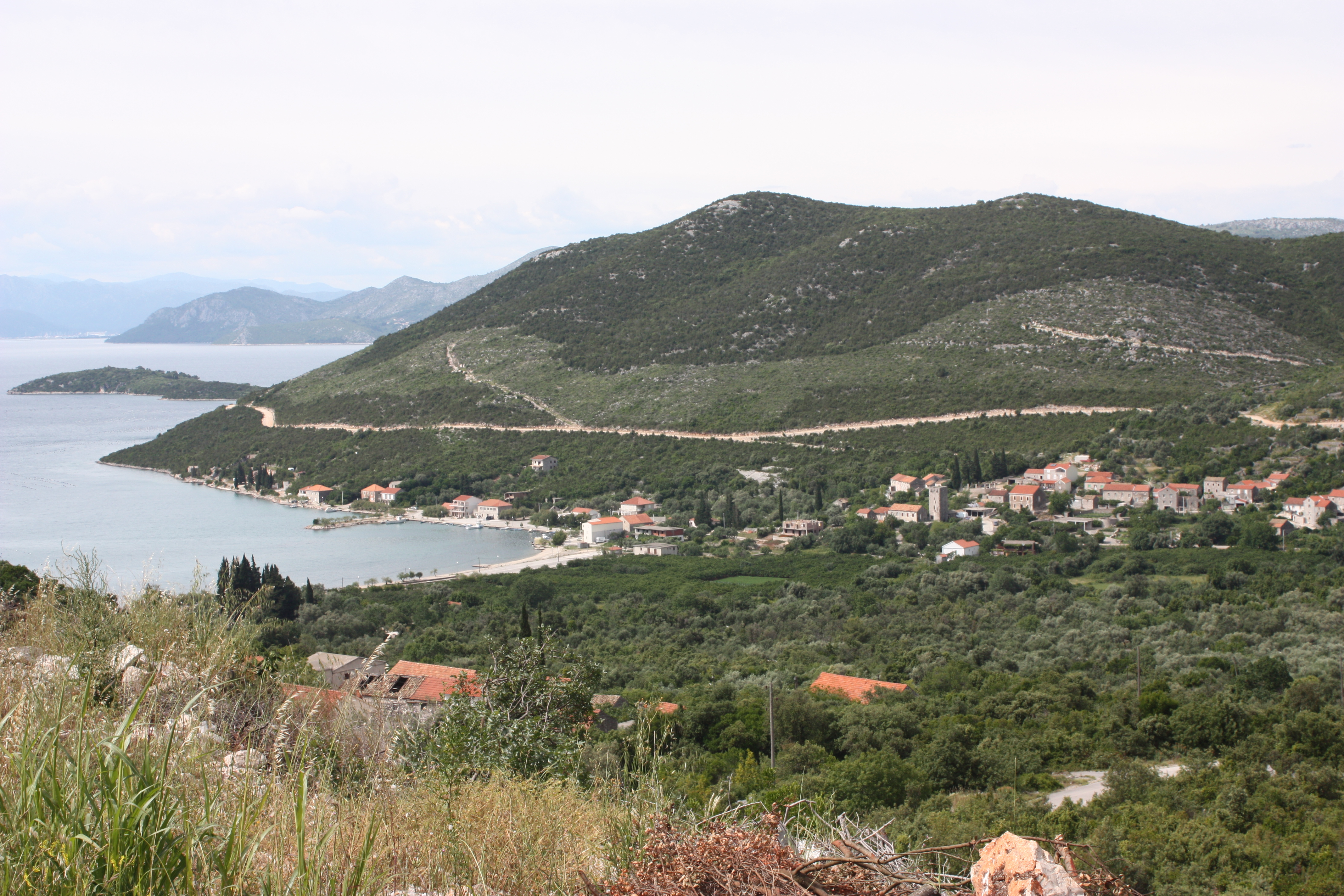 Village Brijesta at Pelješac peninsula